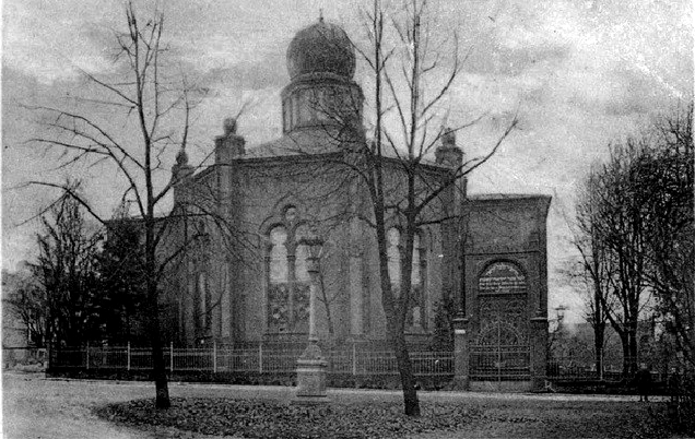 Synagogue in Bolesławiec